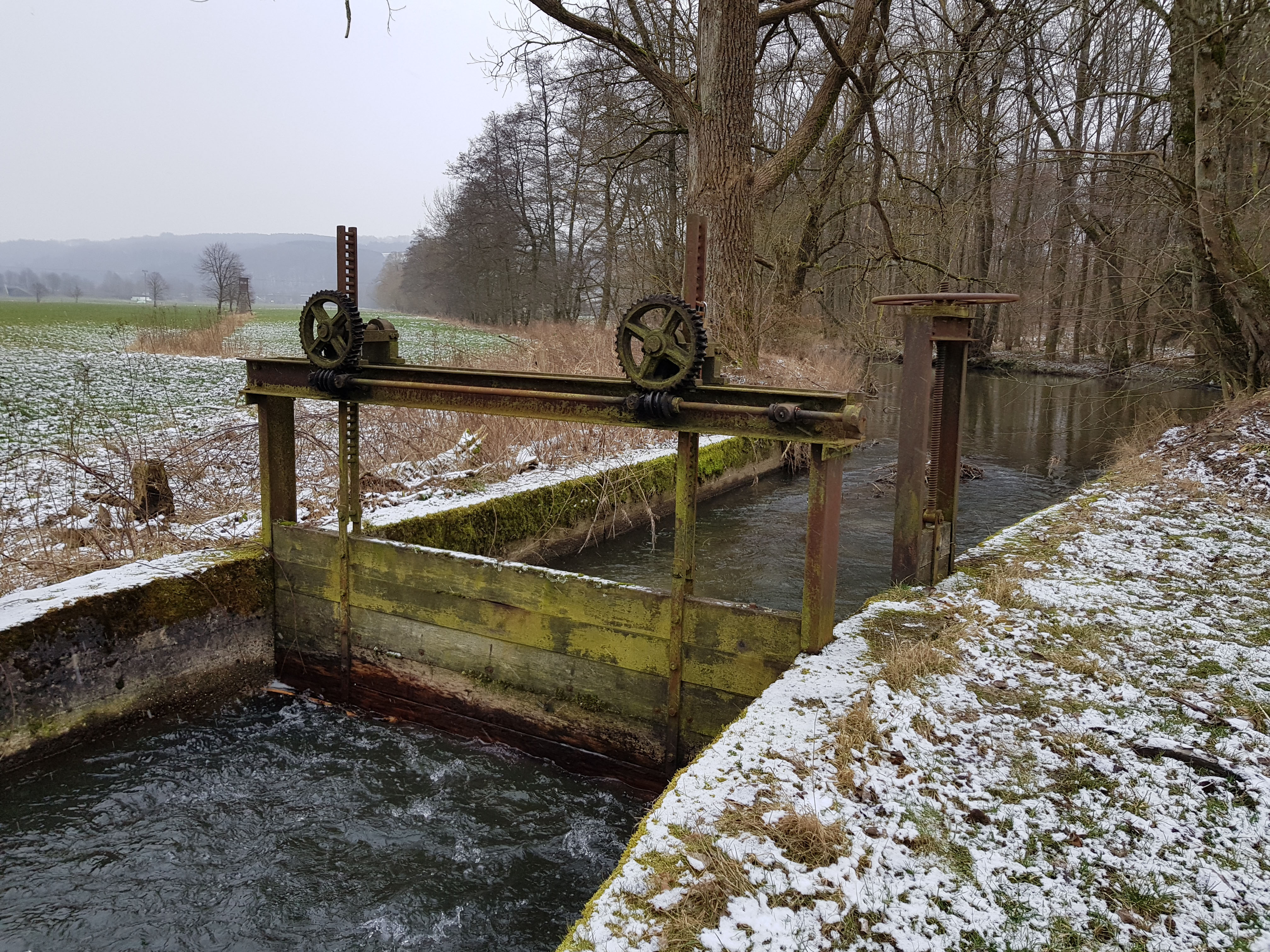 Rund einen Kilometer süd-östlich des Turbinenhaus' wird das Wasser der Nister an einem Wehr in einen Mühlgraben geleitet und durch den Graben und später durch einen Stollen (der für das nötige Gefälle sorgt, um die Turbine antreiben zu können) zur Turbine geleitet.